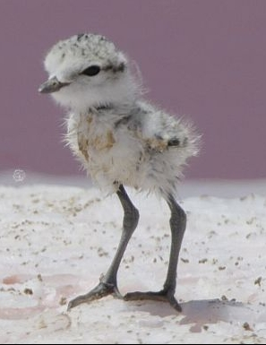 Chestnut-banded Plover (Charadrius pallidus), Chicken, January 21 2008, Mile 4 Salt Works, Swakopmund, Namibia, © Trevor Hardaker, South Africa